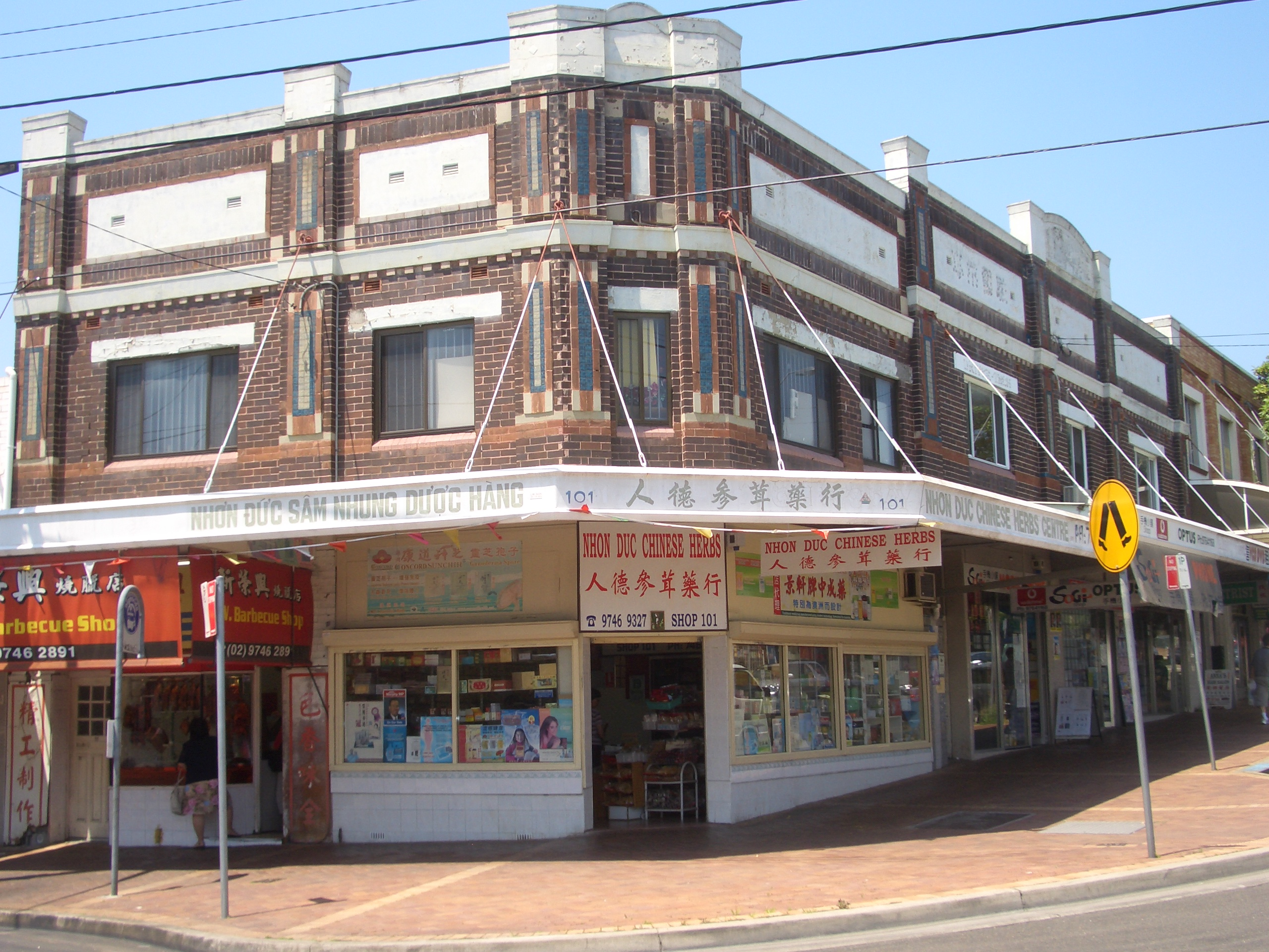 The Crescent, Homebush West